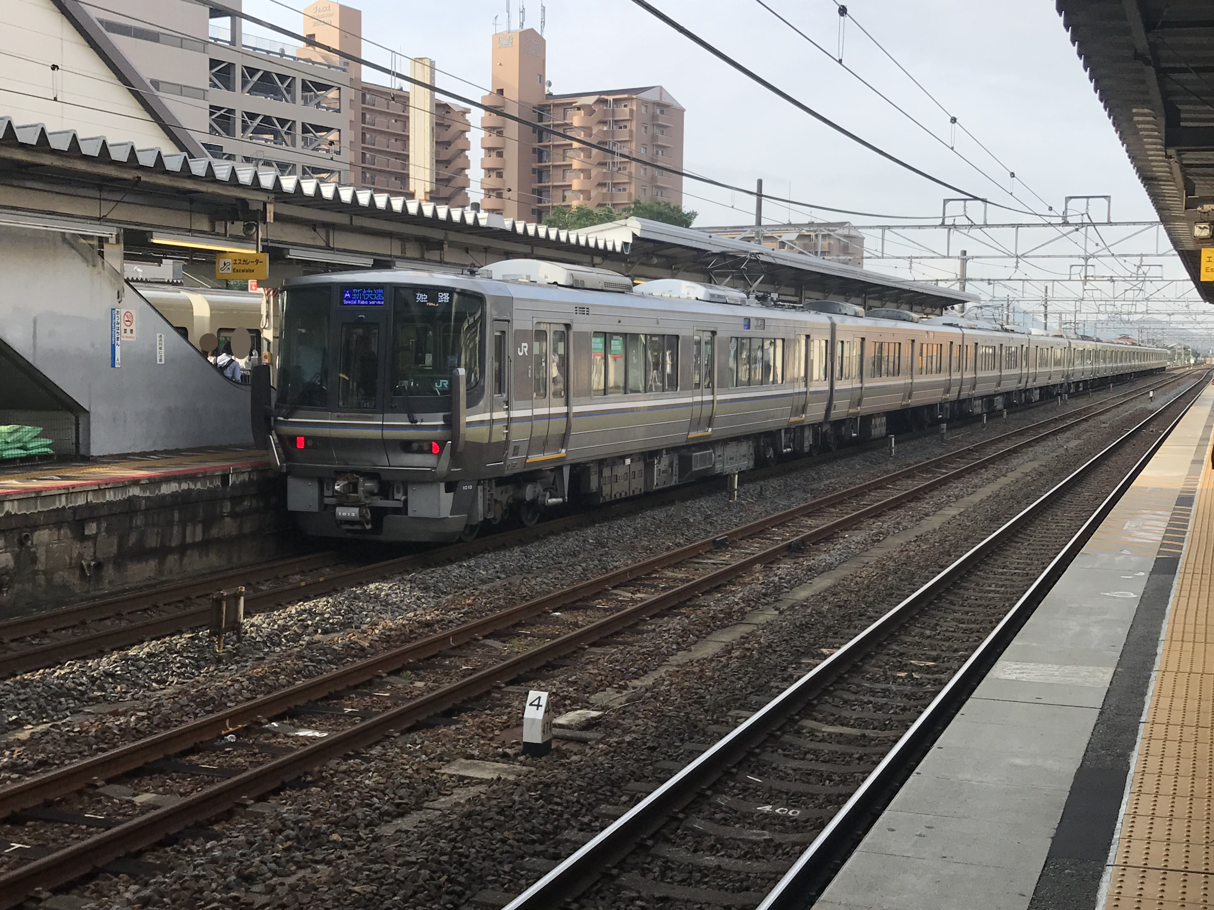 JR West unit V5 after refurbishment at Omi Hachiman